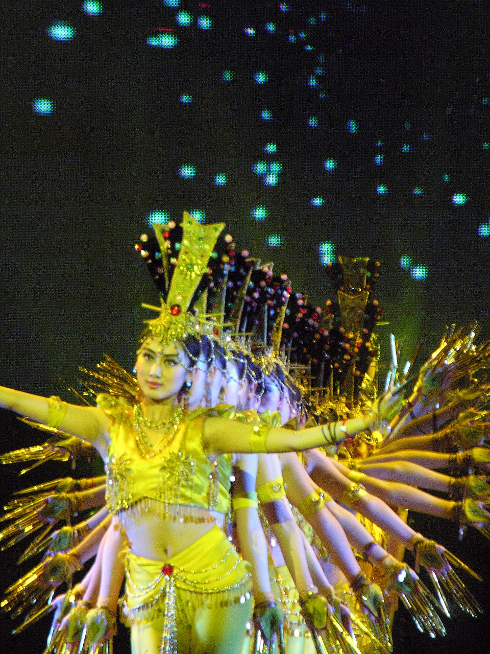 The show was entertainment from the Tang Dynasty (618-907 A.D.)